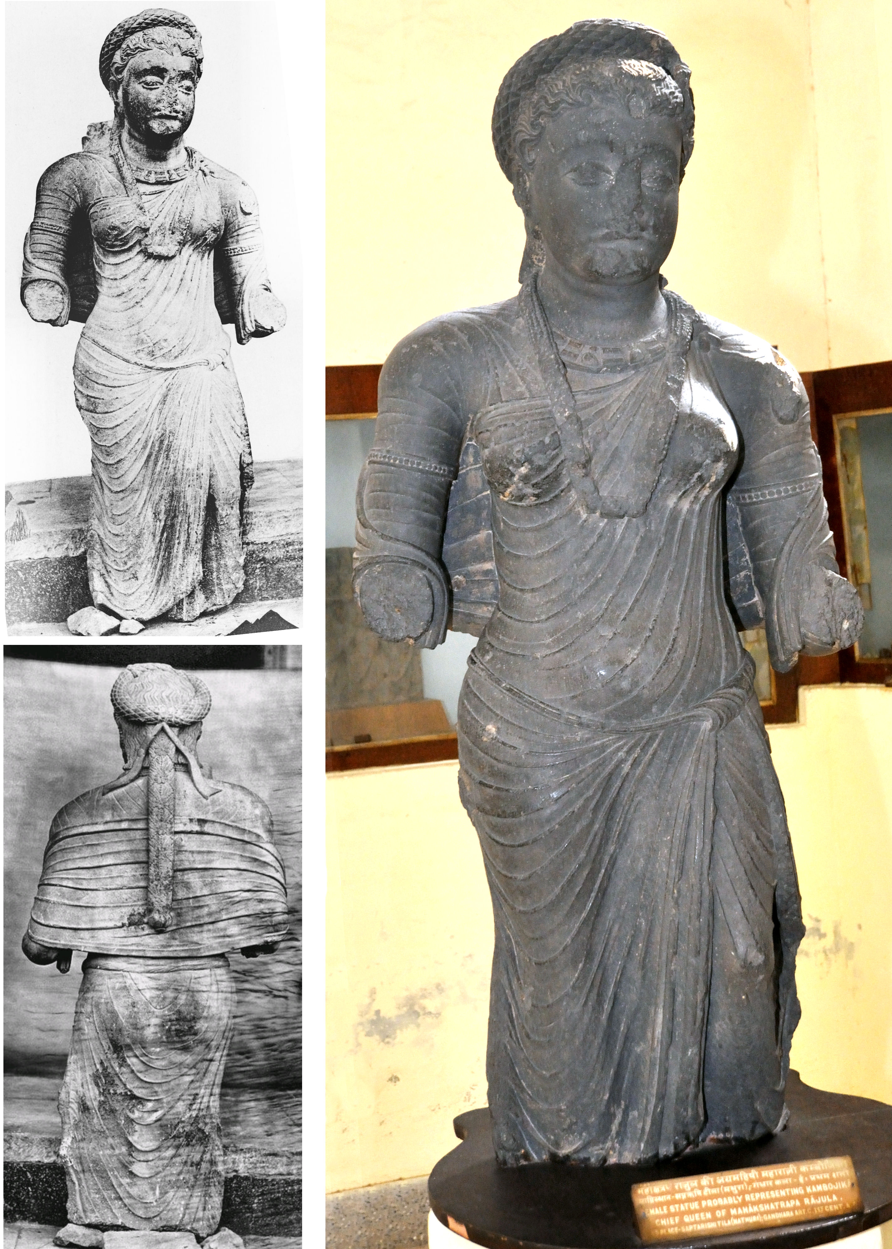 Female Statue Probably Representing Kambojika the Chief Queen of Mahakshatrapa Rajula - Saptarishi Mound - Circa 1st Century CE - ACCN F-42 - Government Museum - Mathura